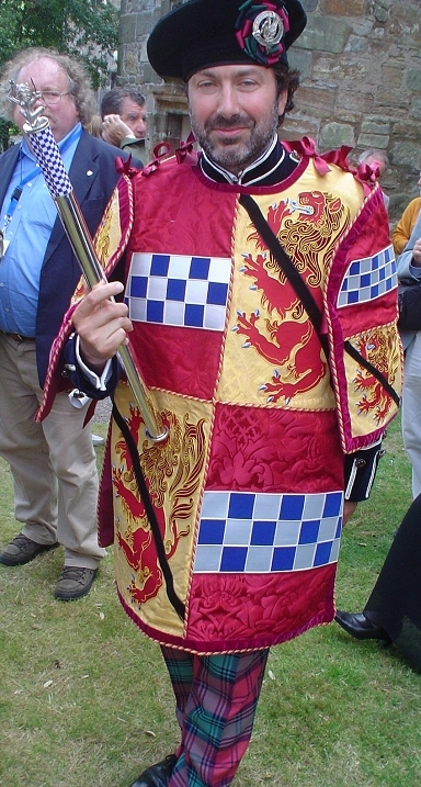 Cropped image of Alexander Lindsay, Endure Pursuivant of Arms, at the XXVIIth Heraldic and Genealogical Congress in St Andrews.